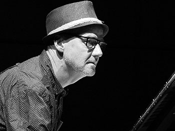 Jon Balke pianist performing in Aarhus Denmark, 2013